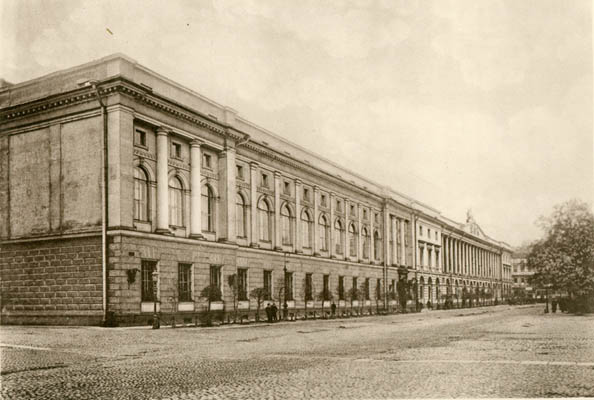 Russian National Library (1913)